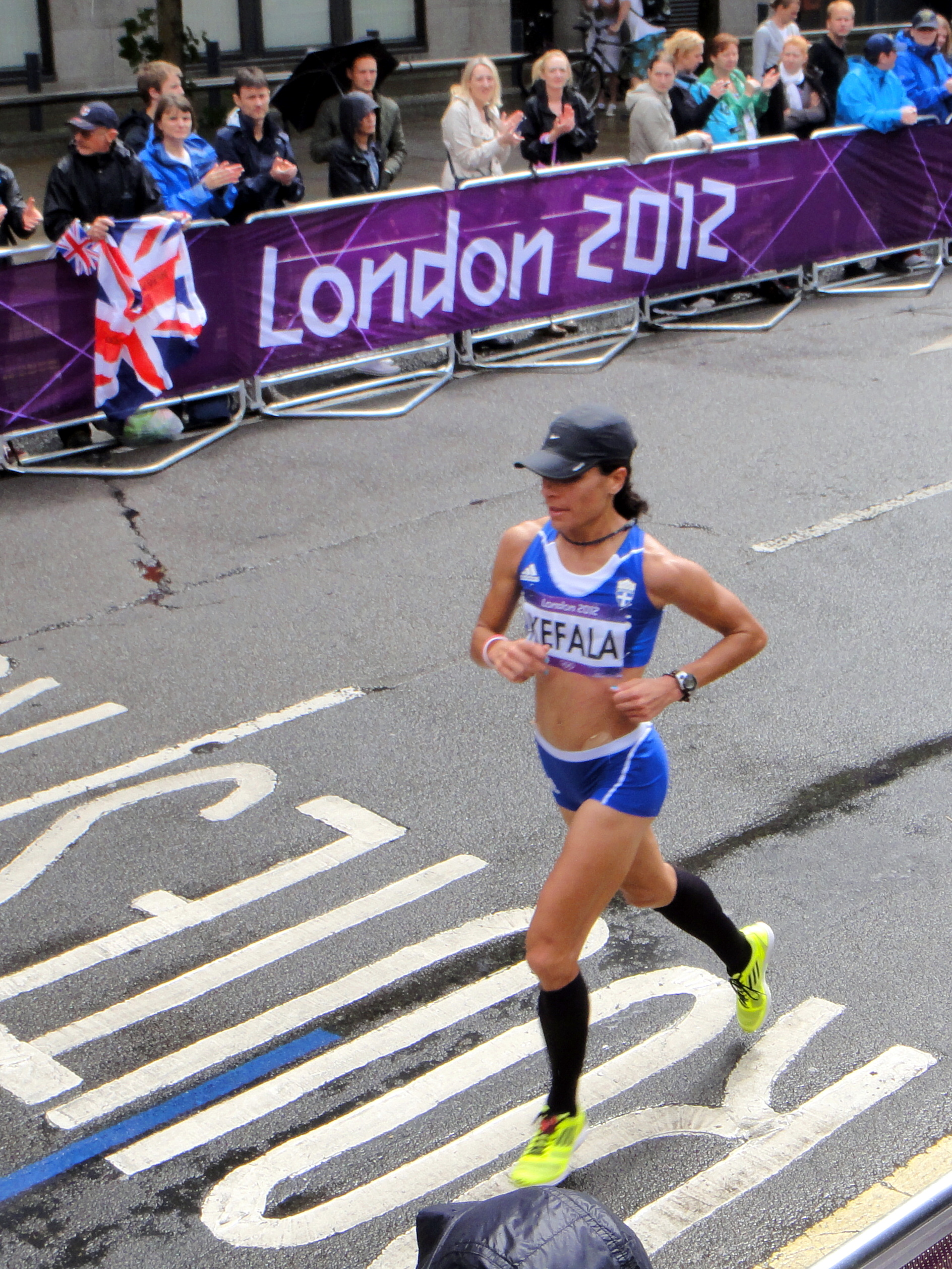 Konstadina Kefala (Greece) - London 2012 Women's Marathon